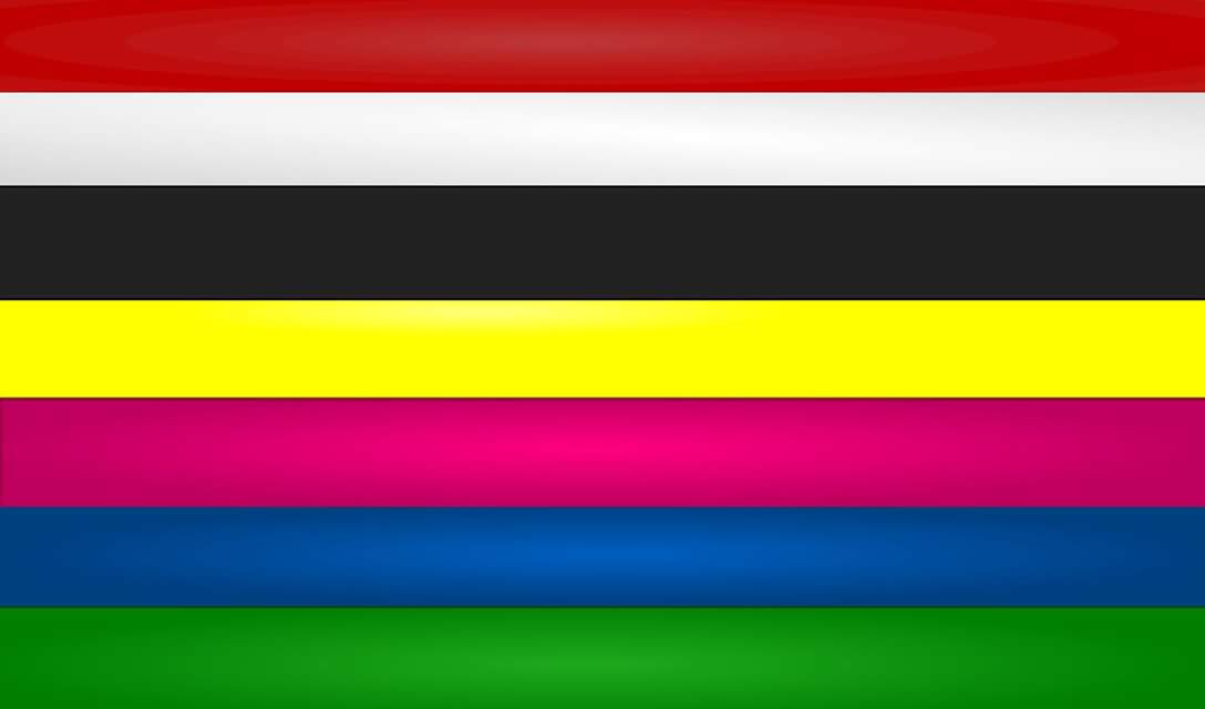 Flag of kangleipak has 7 colours horizontally, Red at the top and goes to green at the bottom. This 7 colours symbolises the Colours of Salai Taret .